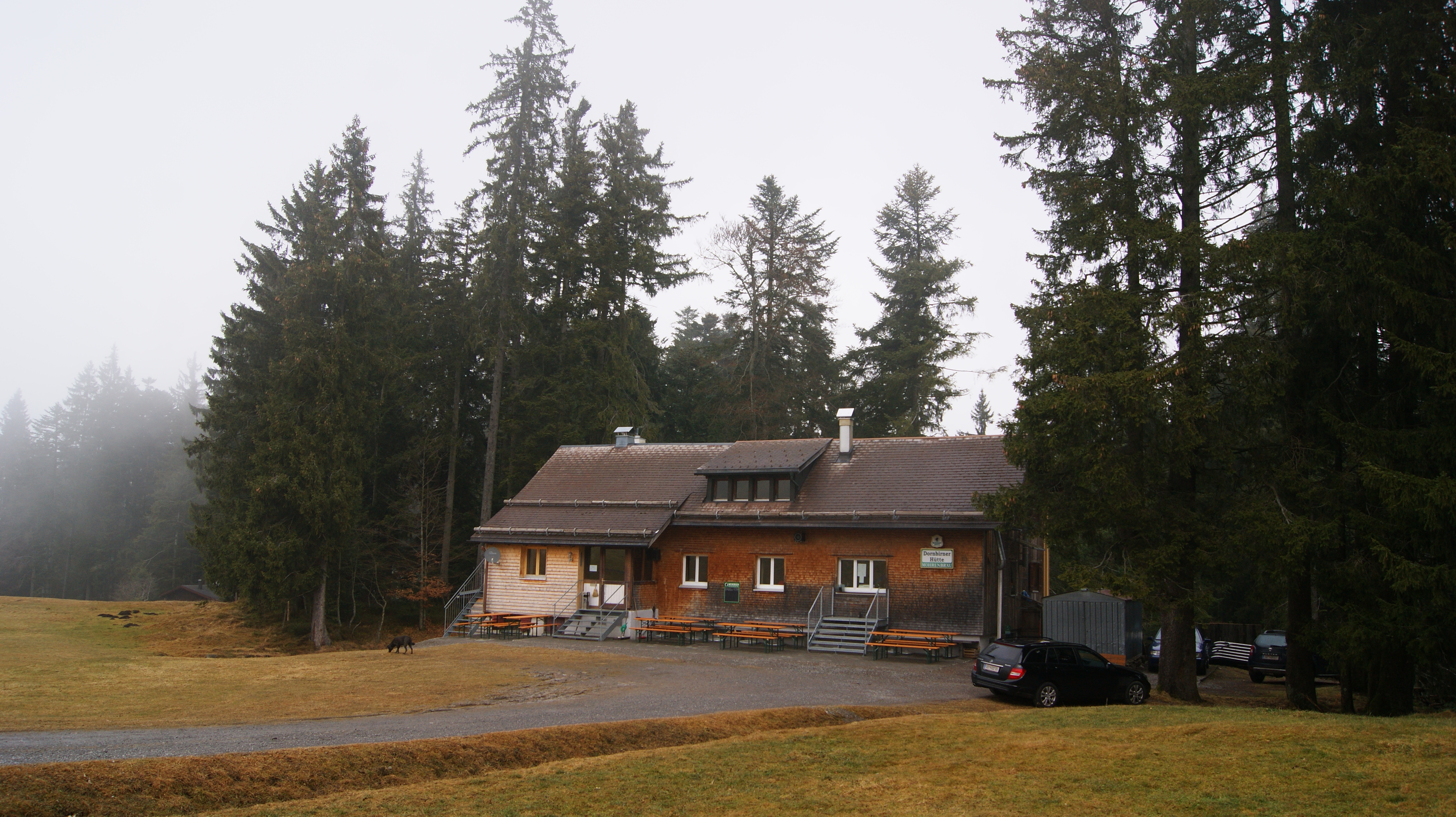 Reichsbund-hut (since 2005: "Dornbirner hut") at the Boedele, Schwarzenberg, Vorarlberg, Austria (1189 masl).